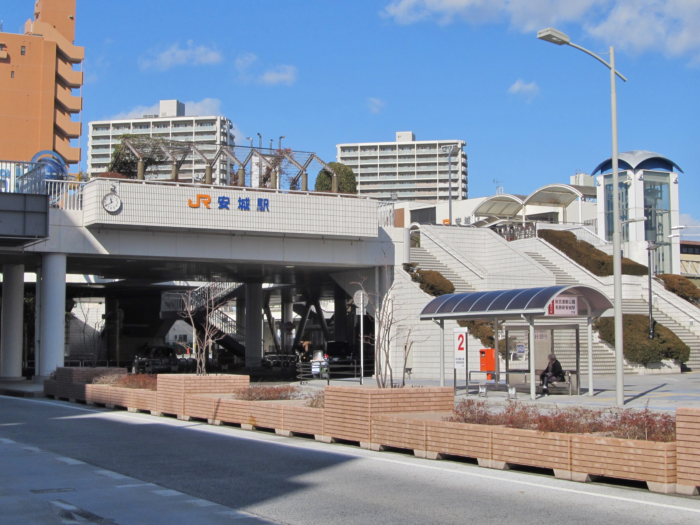 Central Japan Railway Tōkaidō Main Line Anjō Station Pedestrian Deck